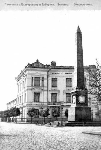 Monument Dolgorukov-Krymski in Simferopol